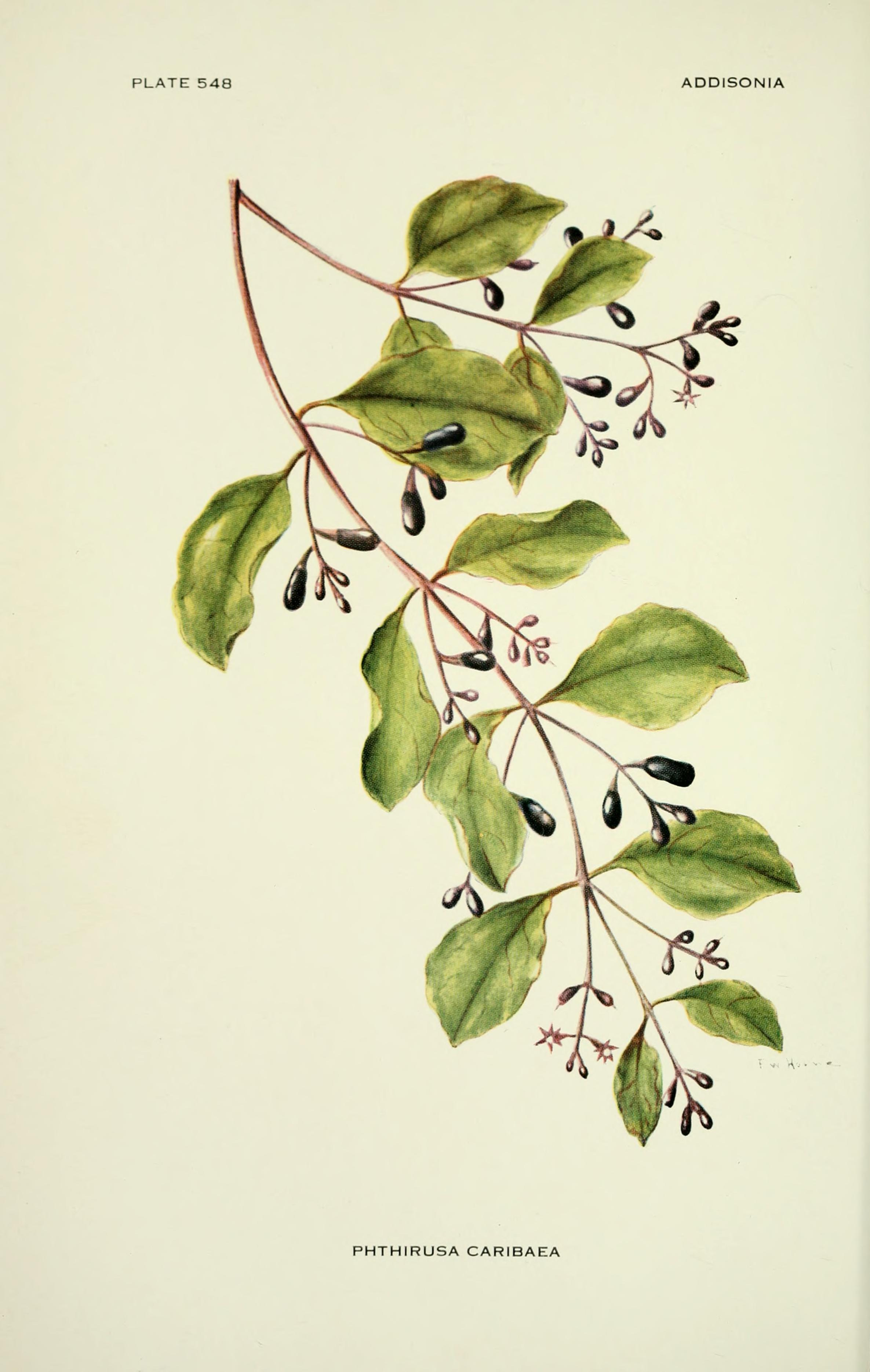 Title: Addisonia : colored illustrations and popular descriptions of plants Year: 1916-(1964) (1910s) Authors: New York Botanical Garden Subjects: Plants; Plants -- United States; Plants Publisher: New York : New York Botanical Garden Text Appearing Before Image: PLATE 548 ADDISONIA Text Appearing After Image: PHTHIRUSA CARIBAEA